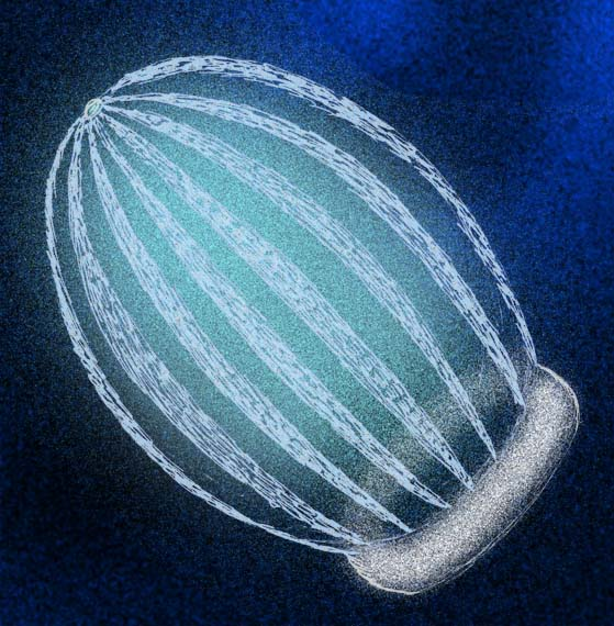 Reconstruction of Ctenorhabdotus capulus, a Cambrian ctenophore from the Burgess Shale of British Columbia